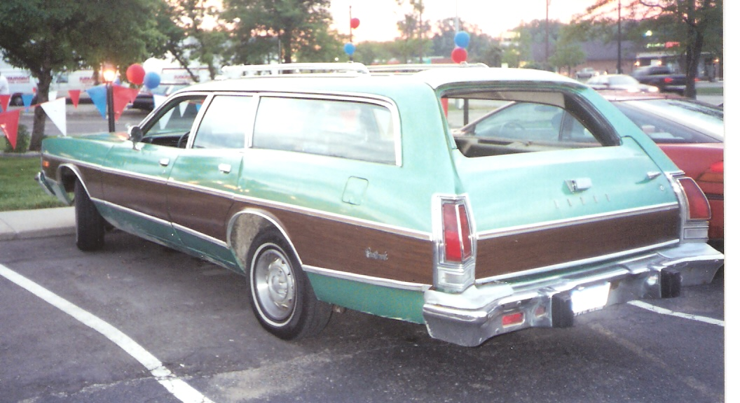 1975 Dodge Coronet Crestwood station wagon I photographed in Michigan in June 2001.